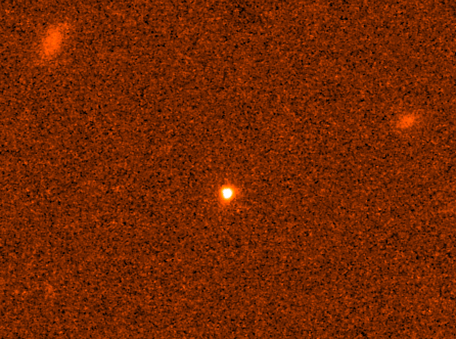 June 1997 HST/STIS Image of the optical afterglow of GRB 970508